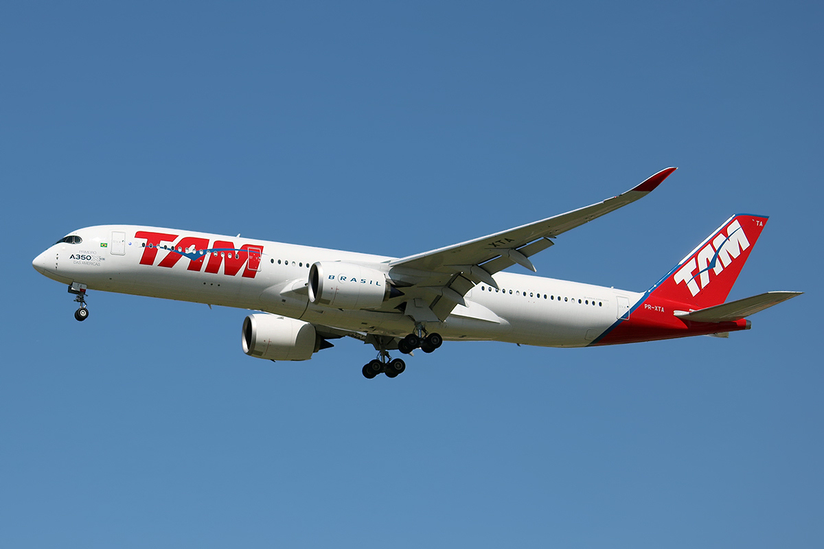 TAM Linhas Aéreas Airbus A350-941 (PR-XTA) at Madrid Barajas